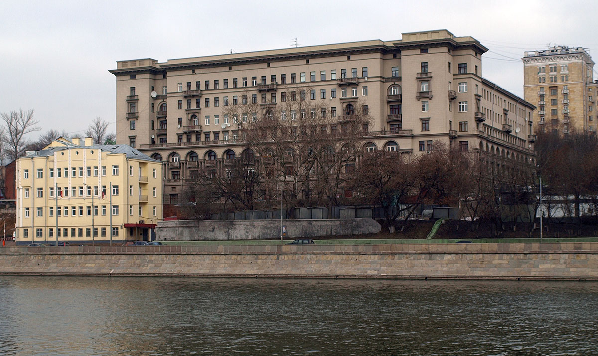 Compare the size: Stalinist vs. 19 century, Goncharnaya naberezhnaya, Moscow